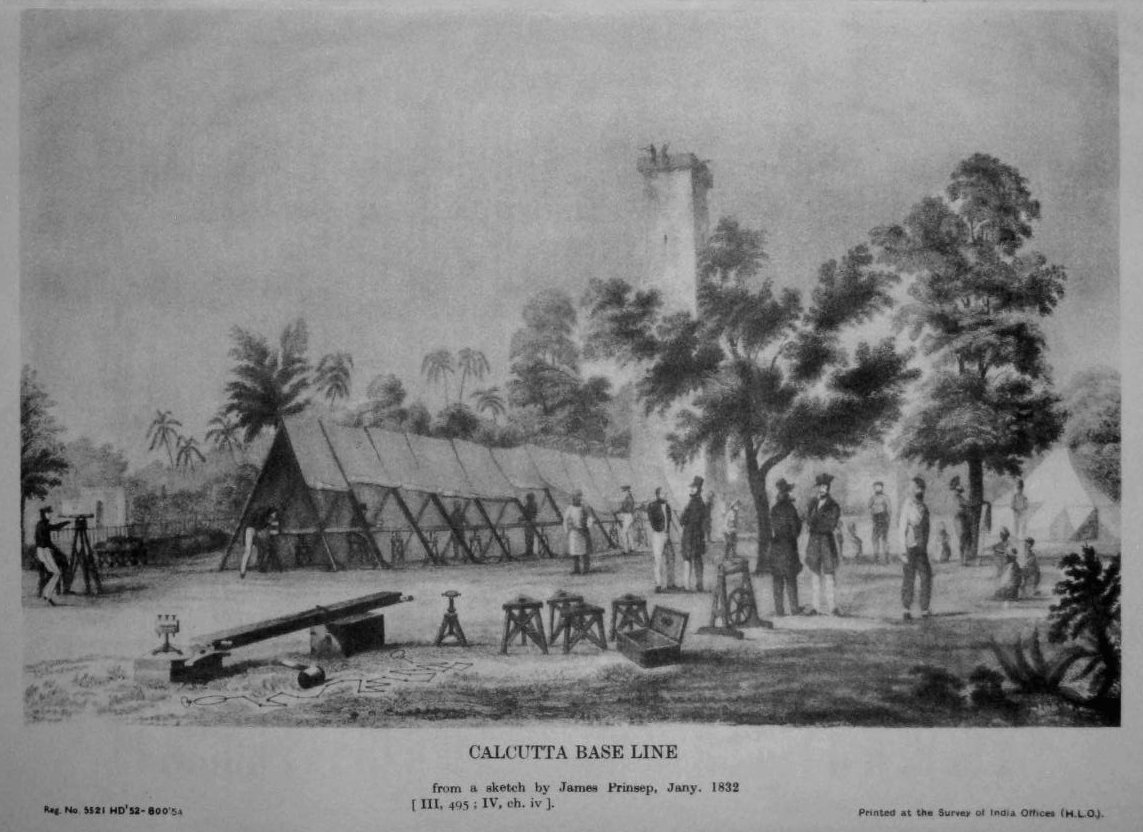 Great Trigonometrical Survey measurement of the Calcutta baseline in 1832 by George Everest. The engraving is based on a sketch by James Prinsep. It shows a Ramsden chain being set on coffers supported by pickets. The tent is to avoid expansion due to heat. The boning telescope is used to align the links of the chain.